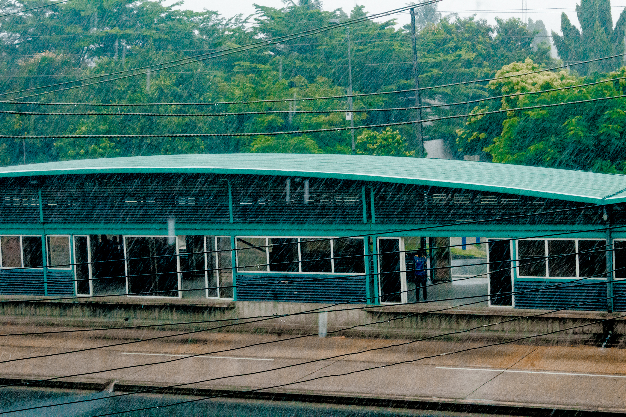 This is an image with the theme "Africa on the Move or Transport" from: Tanzania